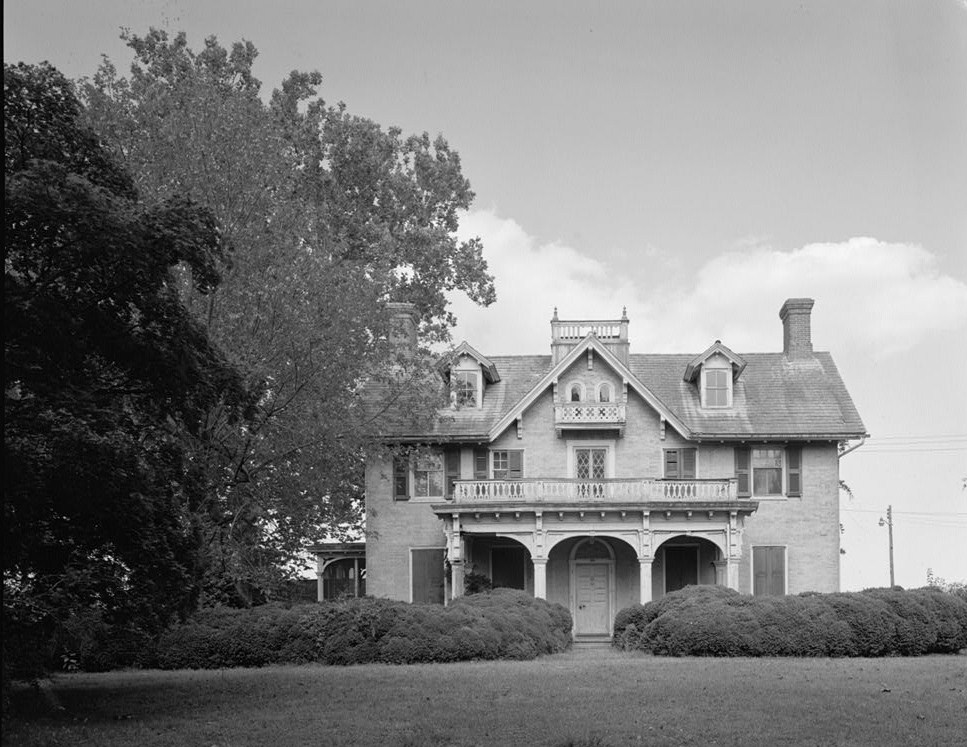 Greenlawn, Main House, Route 896 (North Broad Street), 0.6 mile north of Middletown, Middletown vicinity (New Castle County, Delaware) cropped This file comes from the Historic American Buildings Survey (HABS), Historic American Engineering Record (HAER) or Historic American Landscapes Survey (HALS). These are programs of the National Park Service established for the purpose of documenting historic places. Records consist of measured drawings, archival photographs, and written reports. When reusing please credit: Library of Congress, Prints & Photographs Division, DEL,2-MIDTO.V,4-A-1 This tag does not indicate the copyright status of the attached work. A normal copyright tag is still required. See Commons:Licensing. This work is in the public domain in the United States because it is a work prepared by an officer or employee of the United States Government as part of that person’s official duties under the terms of Title 17, Chapter 1, Section 105 of the US Code. Note: This only applies to original works of the Federal Government and not to the work of any individual U.S. state, territory, commonwealth, county, municipality, or any other subdivision. This template also does not apply to postage stamp designs published by the United States Postal Service since 1978. (See § 313.6(C)(1) of Compendium of U.S. Copyright Office Practices). It also does not apply to certain US coins; see The US Mint Terms of Use. This file has been identified as being free of known restrictions under copyright law, including all related and neighboring rights.